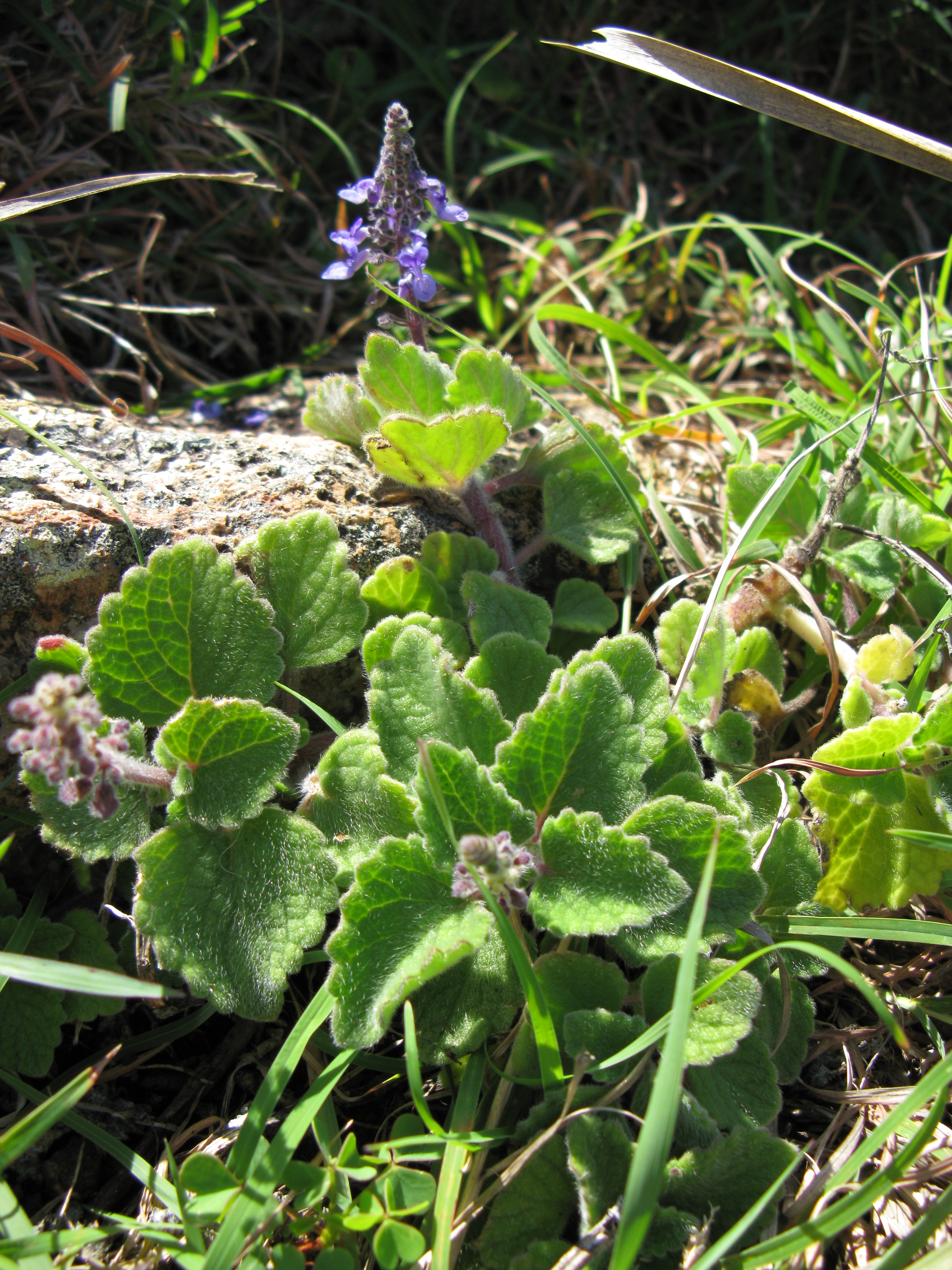 Native, yearlong green, perennial, prostrate to decumbent, pleasantly aromatic (Geranium-like odour), moderately to densely hairy herb. Leaves are decussate and have 15–25 mm long petioles; lamina are depressed to very broadly ovate, 35–40 mm long and 45–50 mm wide; margins are bicrenate with 7–10 rounded teeth. Flowerheads are compact cymose clusters. Calyces have a maroon outer surface or are partly green. Corollas are tubular, 2-lobed and 6 mm long; the tube is white and lobes bright blue with a purple tinge; upper lobes ± erect; lower lobes extended forward. Stamens have a purple tinge. Flowering is throughout year. A rare ROTAP species, which grows in shallow sandy soils of rocky coastal headlands on the North Coast of NSW.